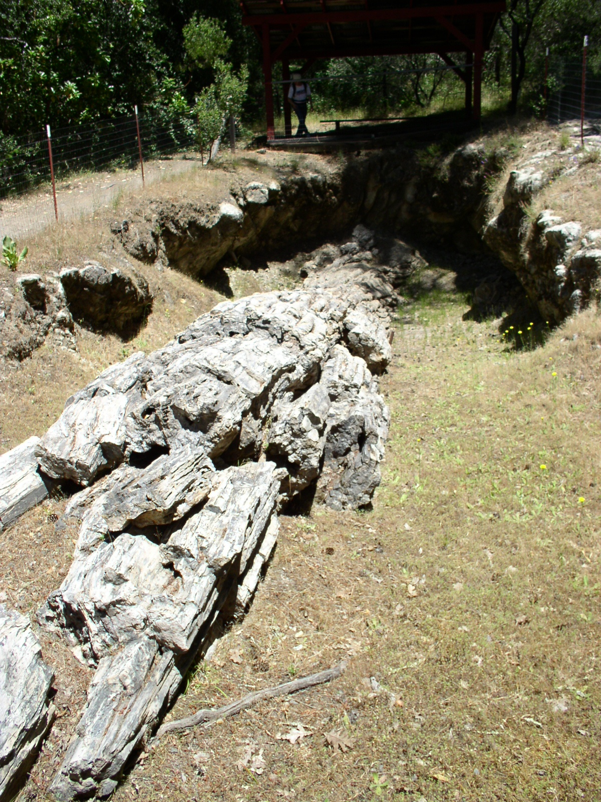 Petrified Tree, Petrified Forest, Calistoga, California, USA. My own photo taken in Petrified Forest.